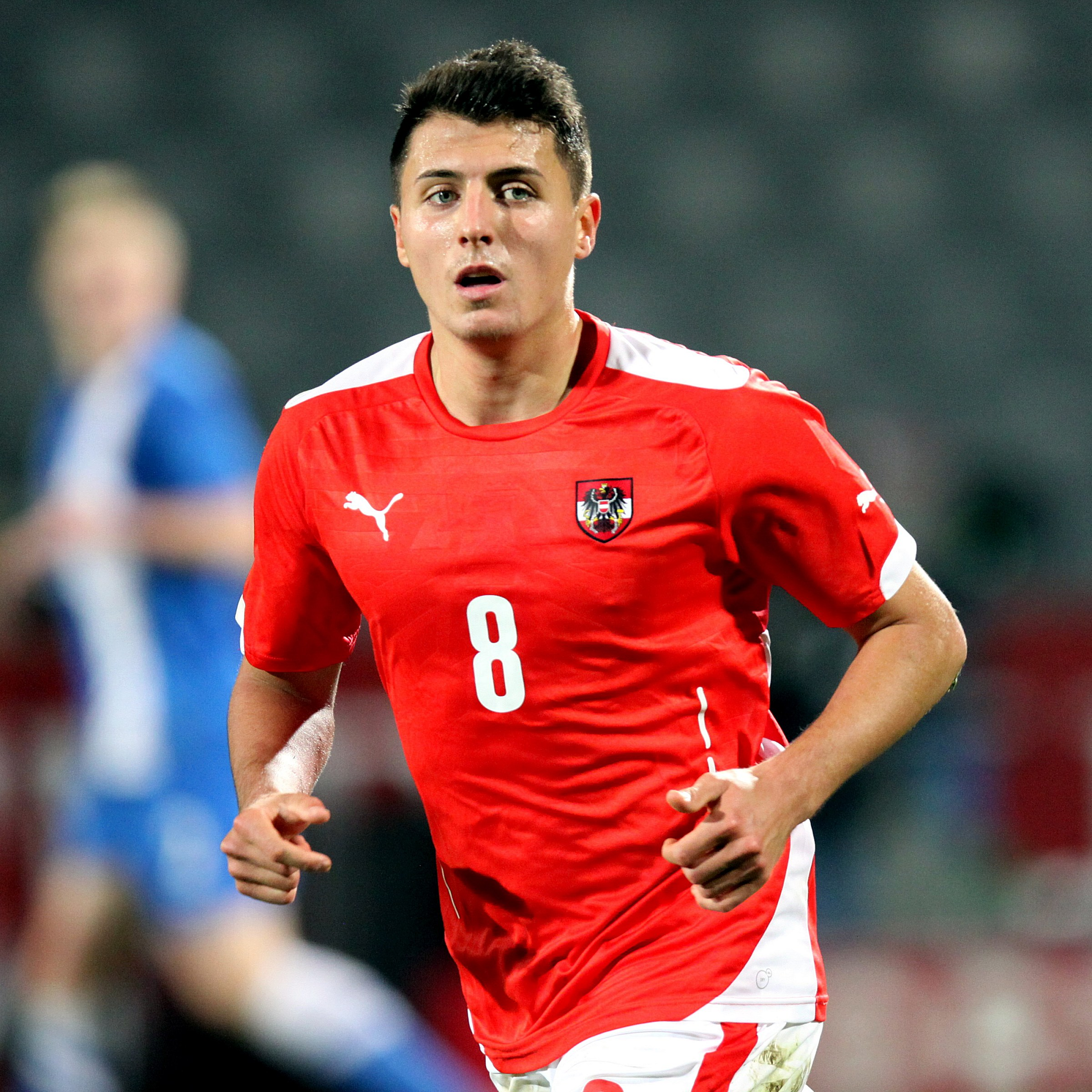 2017 UEFA European Under-21 Championship qualification – Austria U-21 (red shirts) vs. :en:Finland national under-21 football team |Finnland U-21 (blue shirts) 2-0 (0-0) – 2015-11-13 in Vienna, Austria Arena – The photo shows Alessandro Schöpf.